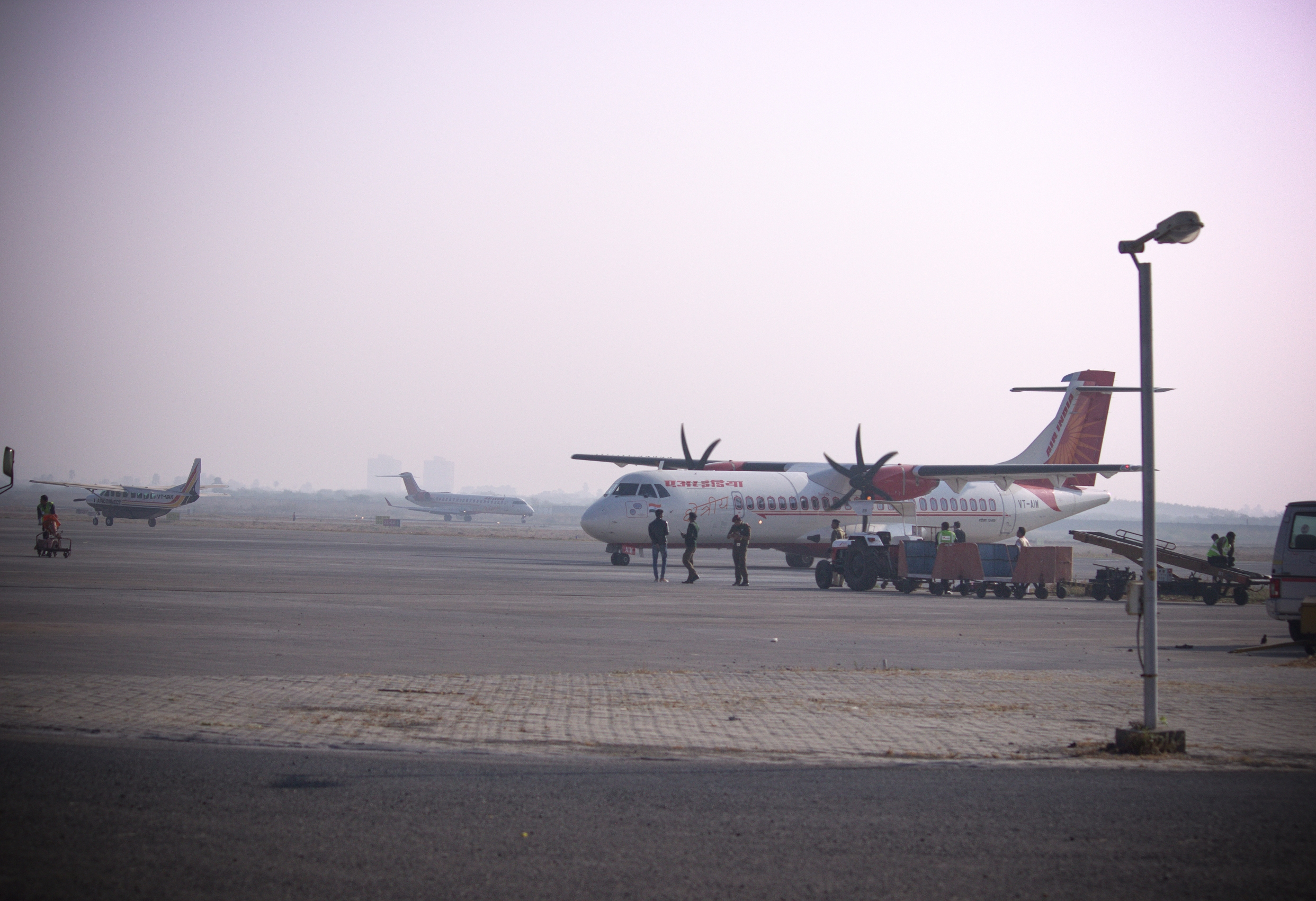 Air india alliance ATR 72 flight between Surat Mumbai with CRJ 700 flight between Surat delhi & diamond aero charter plane